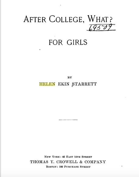 After College, What?: For Girls, By Helen Ekin Starrett